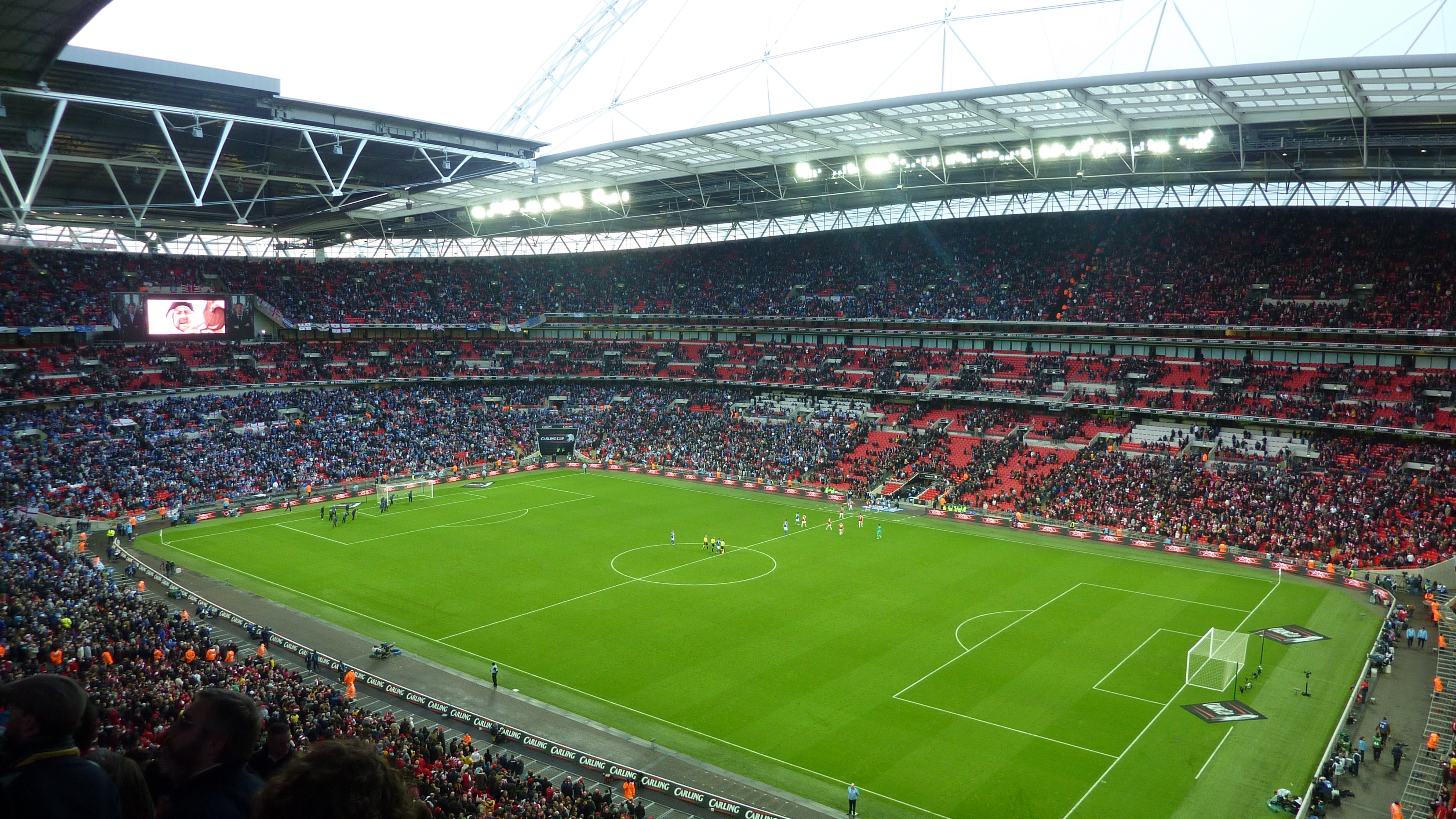 2 cup finals and 2 losses for me so far! I hate this place :)